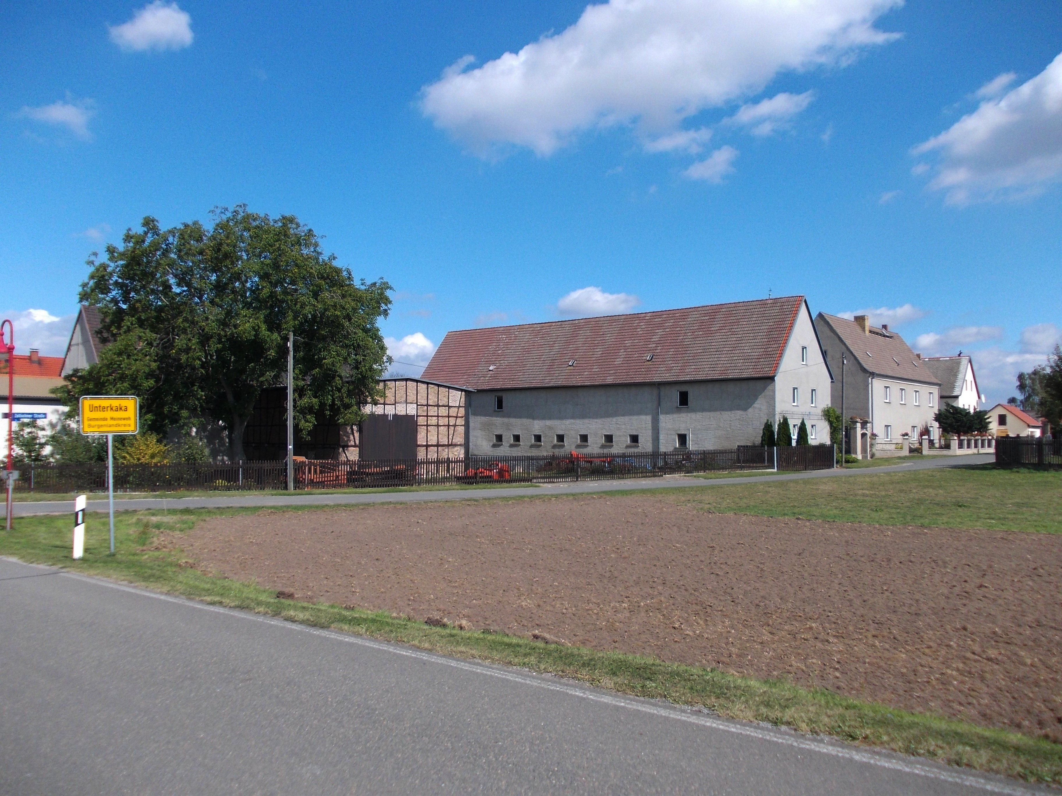 The village of Unterkaka (Meineweh, district of Burgenlandkreis, Saxony-Anhalt) from the south-west